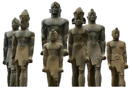 This is a (*.png) version of the File:NubianPharoahs.jpg